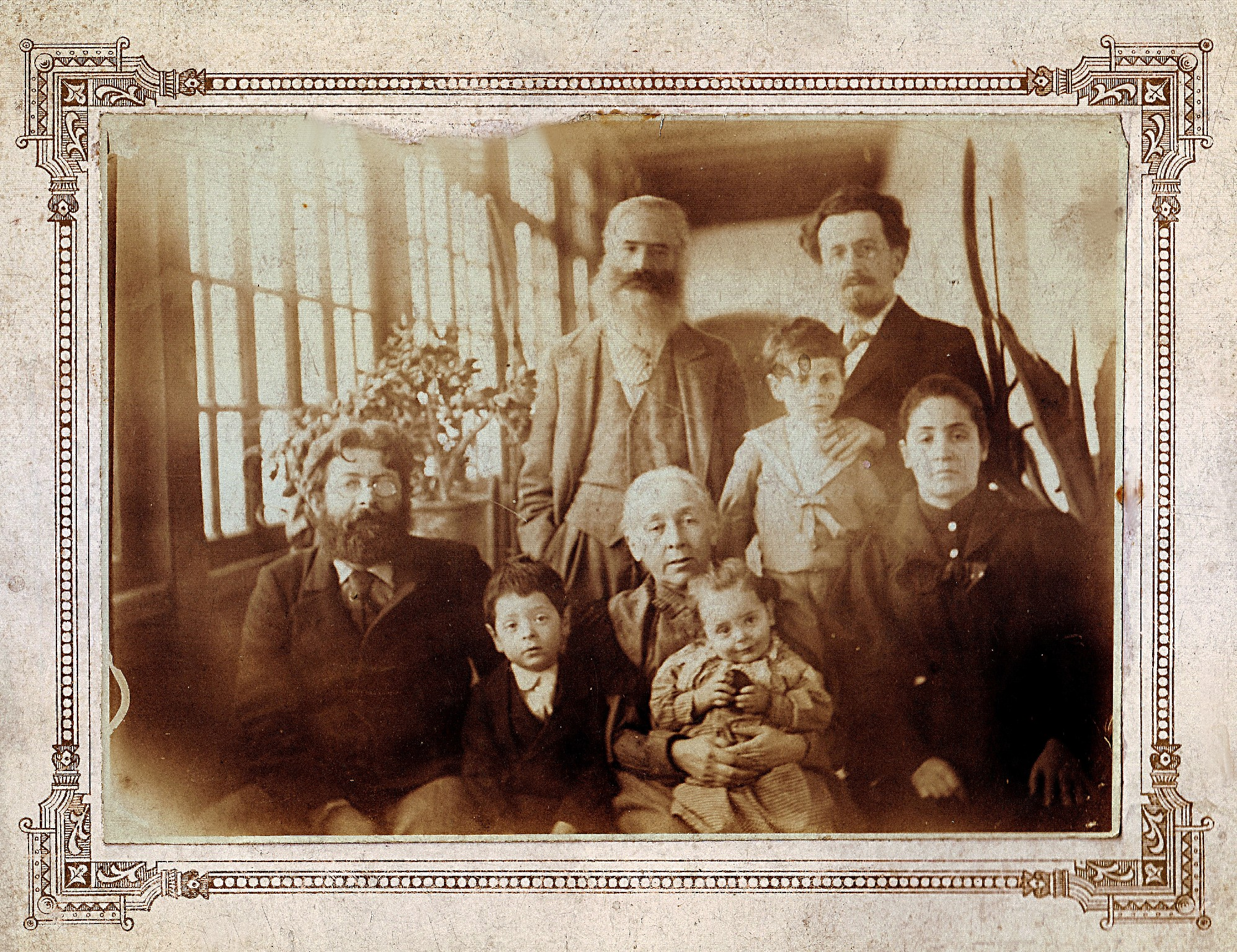 Landau-Weinshal family in Baku approx.1897